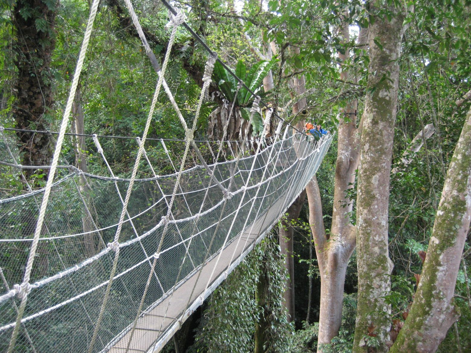 Tree top canopy walk Poring Hot Spring, Sabah, Malaysia F.Broussard July 2007.